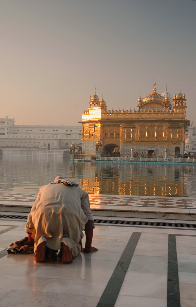 A devotee paying obeisance at the Darbar Sahib (Harmandir Sahib or Golden Temple) Amritsar, Punjab, India. Happy New Year. Explore!